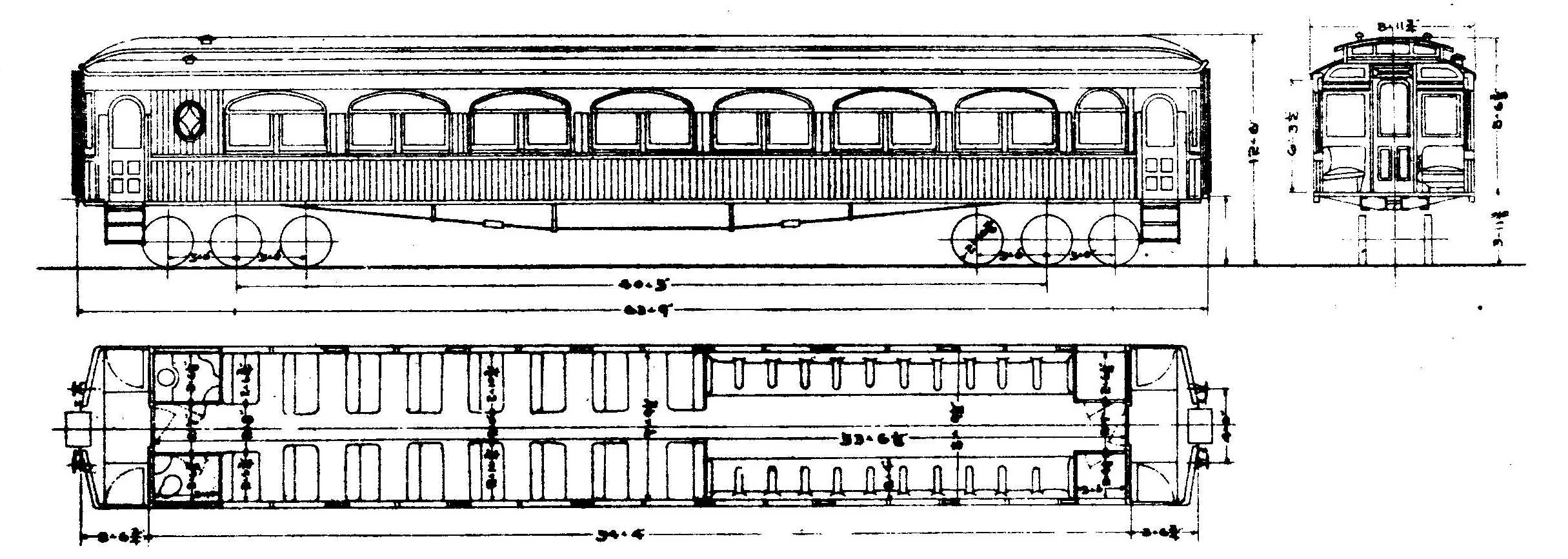 Type drawing of JGR's Fusui9240 type passenger car.